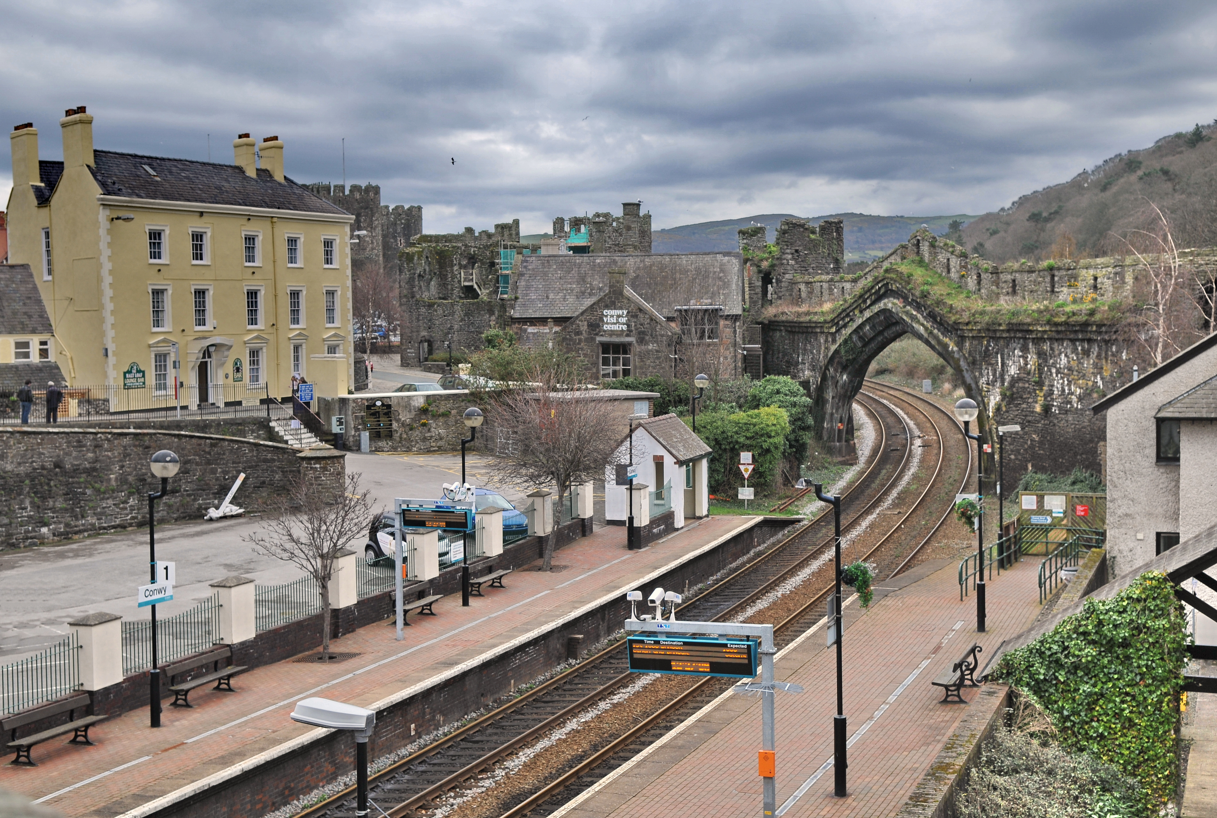 Conwy railway station Original description: North Wales. Conwy Station. Conwy is a request station. To board a train one must hail it as one would hail a bus!